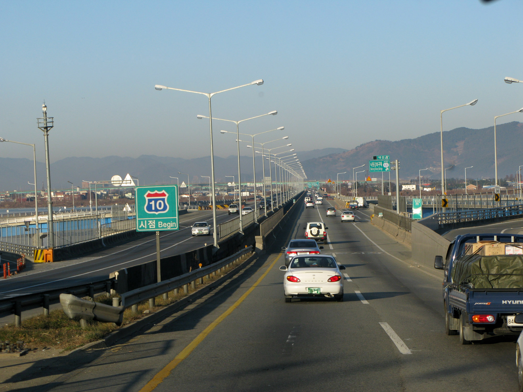 Beginning Point of Namhae Expressway